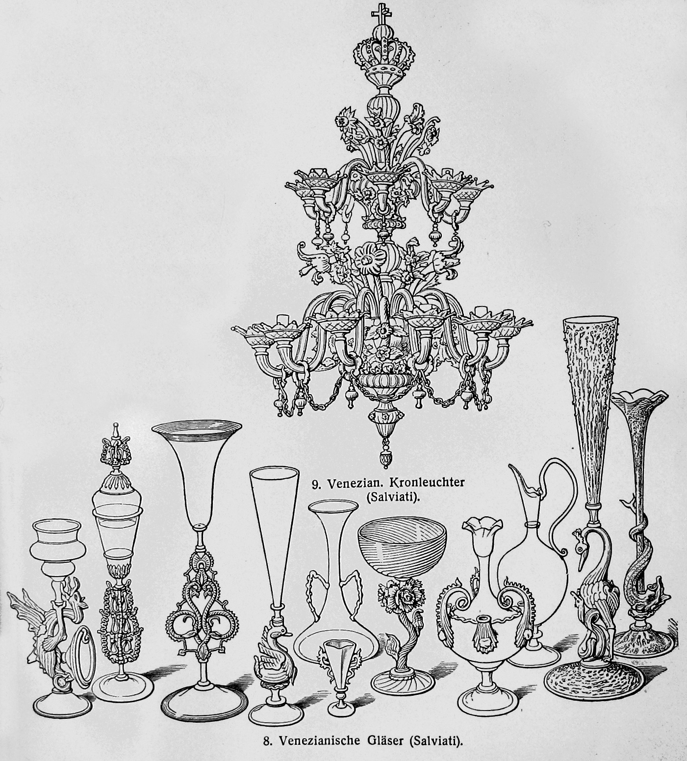 19th century Salviati glassware from Murano/Venice in Italy